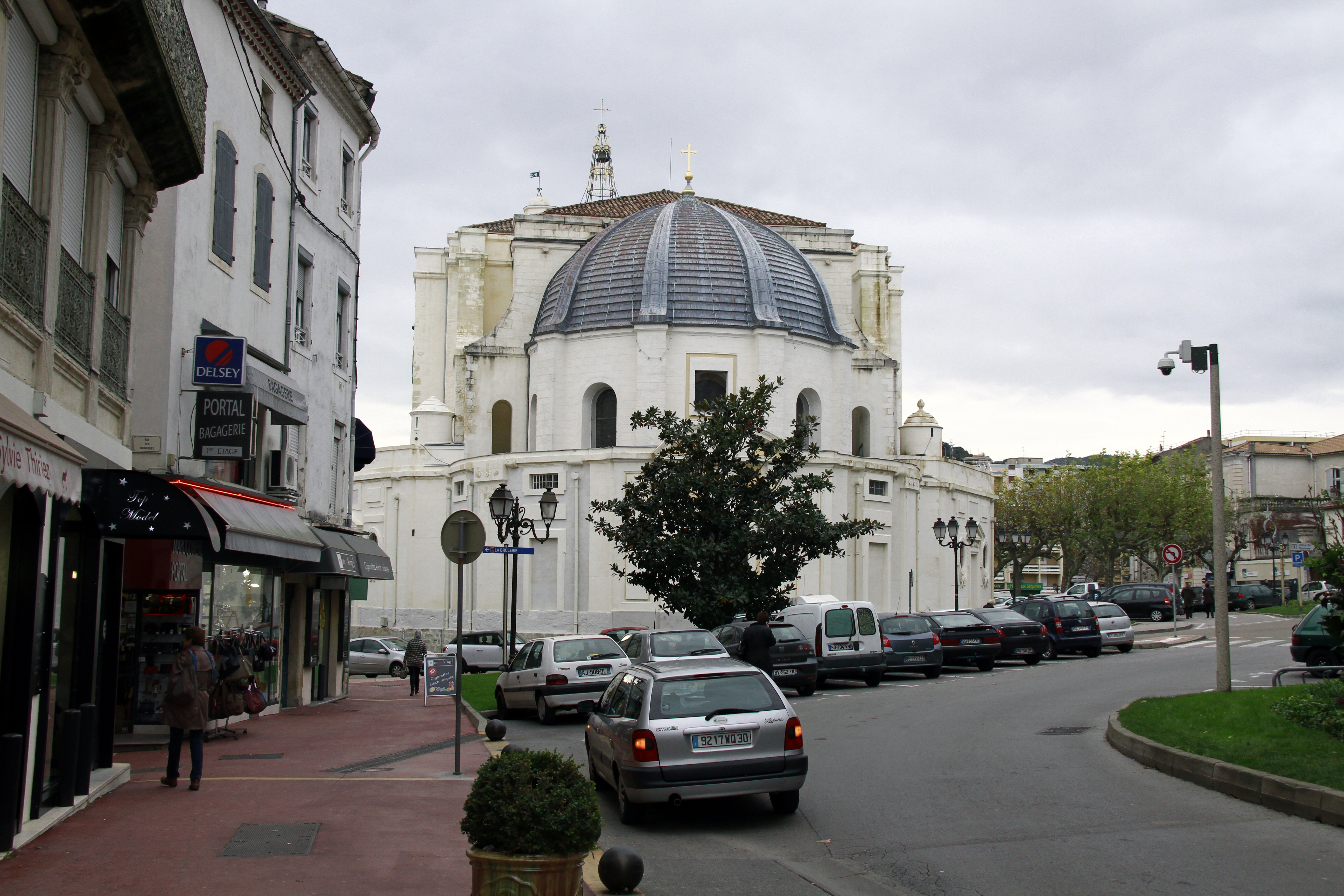 The Cathedral Saint Jean of Ales. Old gray and dilapidated facade, the building has undergone restorations sinds ten years ago.